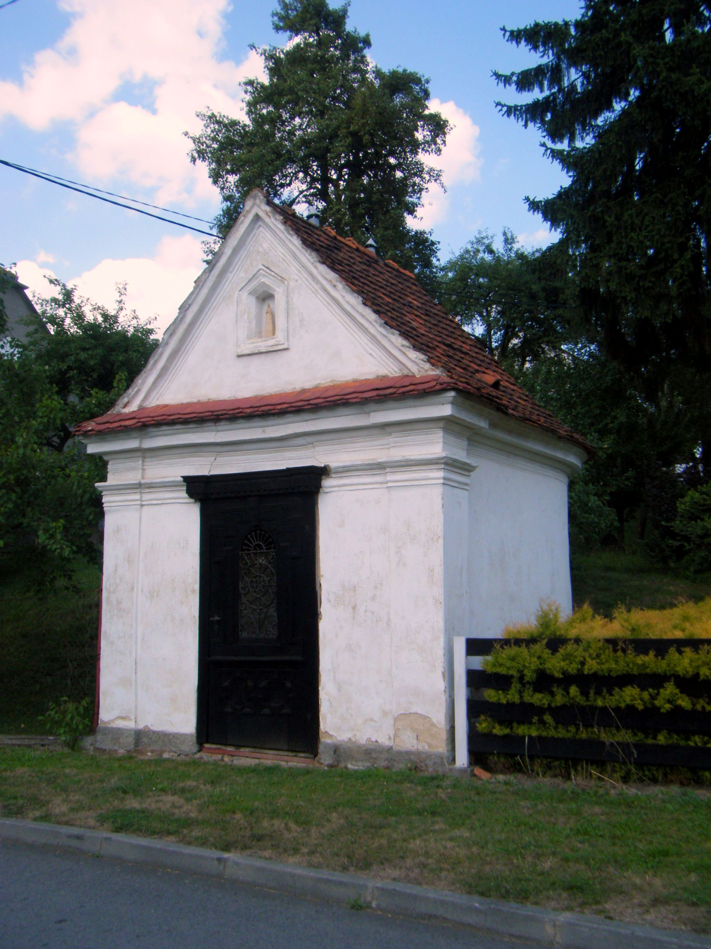 Studénka-Butovice, Adolf Nohel Chapel in Malá Strana